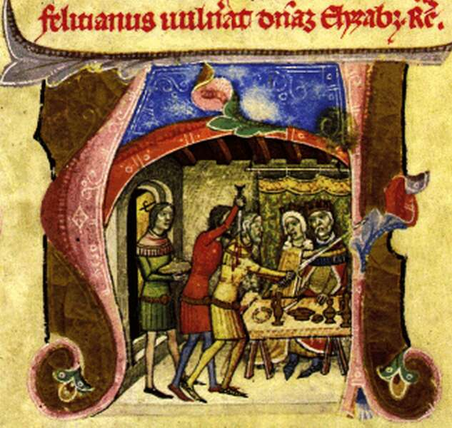 Picture from Illuminated Chronicle (Chronicon Pictum). Attempt of Felician Zach